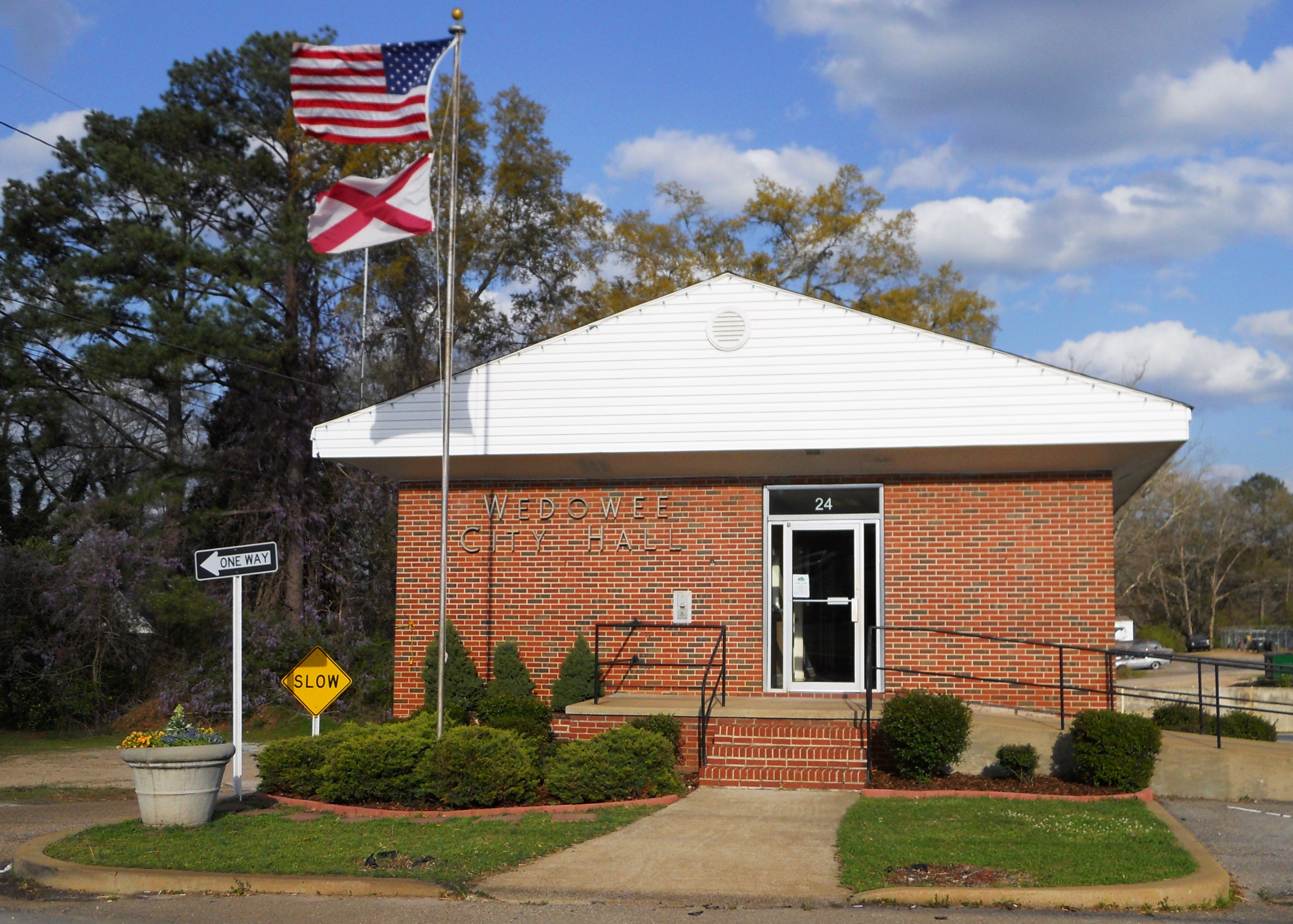 This is a photograph of the City Hall in Wedowee, Alabama.